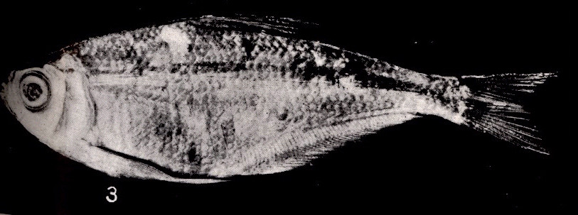 Astyanax pellegrini Eigenmann, 1907 Subject: Astyanax Tag: Fish